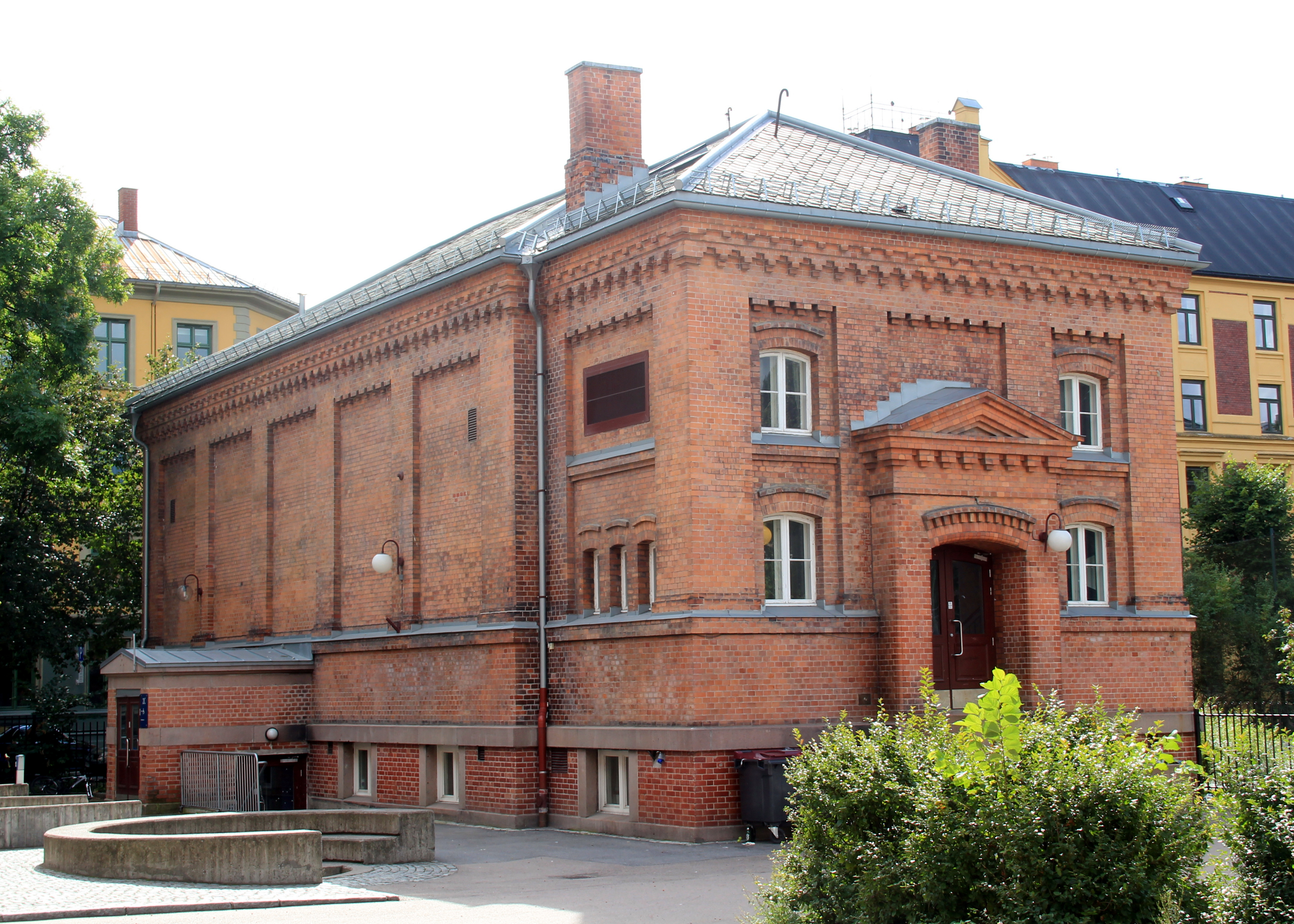 Schoolyard building, former Principal's housing, by Vahl School in Oslo